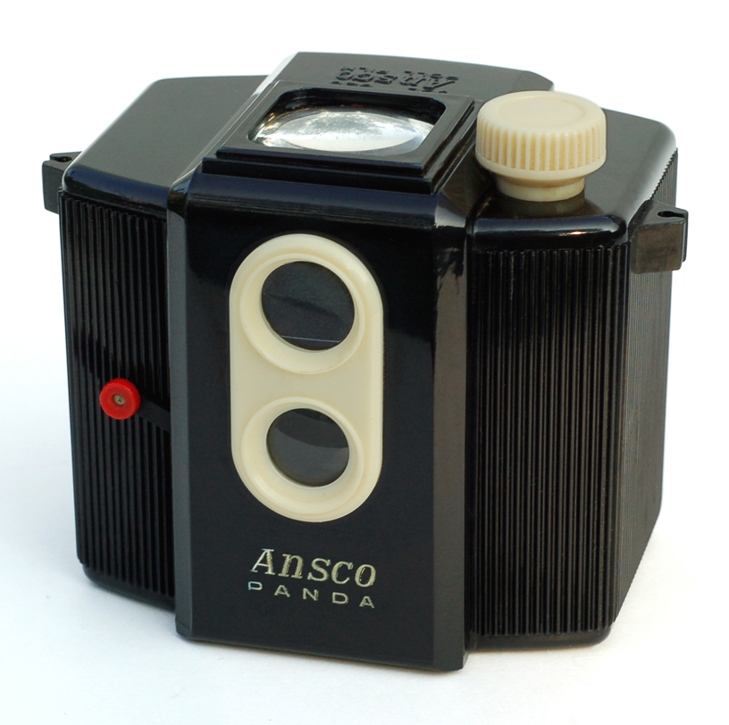 The popular and aptly-named Ansco Panda is a TLR-style box camera that takes 620 film. Many sources (on the web) say the Panda is made of bakelite, but I'm 99.9% certain it's not. The word most often used to describe the Panda is "cute", and with good reason. :o) It's also described as Ansco's answer to the Kodak Baby Brownie, and I'd say it was a damn good move on Ansco's part; the Panda enjoyed a long production run (c1939-50). This example has a stamp inside that says 7-48. If it's a date stamp, that would make it 60 years old!